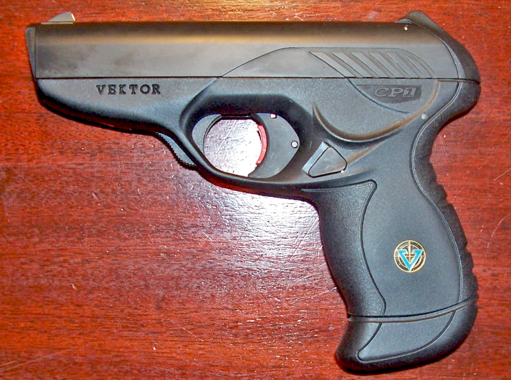 Vektor CP-1 semi-automatic pistol.